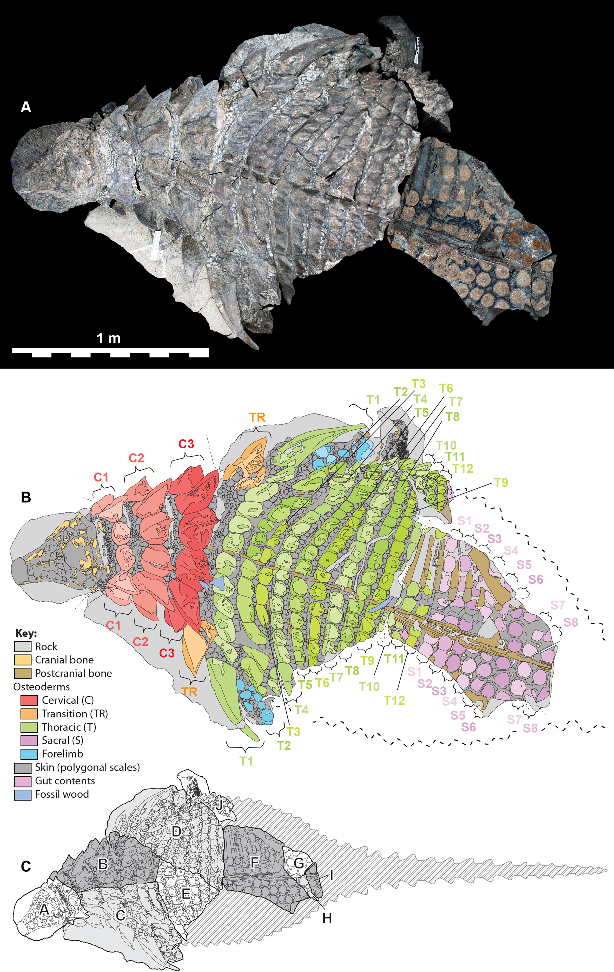 Dorsal view of TMP 2011.033.0001, showing both photocomposite and schematic line drawing. (A) Photocomposite dorsal view of TMP 2011.033.0001. (B) Schematic line drawing of (A) showing osteoderm regions by color. (C) Inset showing constituent blocks of TMP 2011.033.0001, and their relative position within a body outline in dorsal view. Photocomposite (A), created using separate, orthogonal images of blocks A–C, D, E, F–I, and J and combined digitally to reduce parallax. Blocks F, G, H, and I represent reflected counterpart.